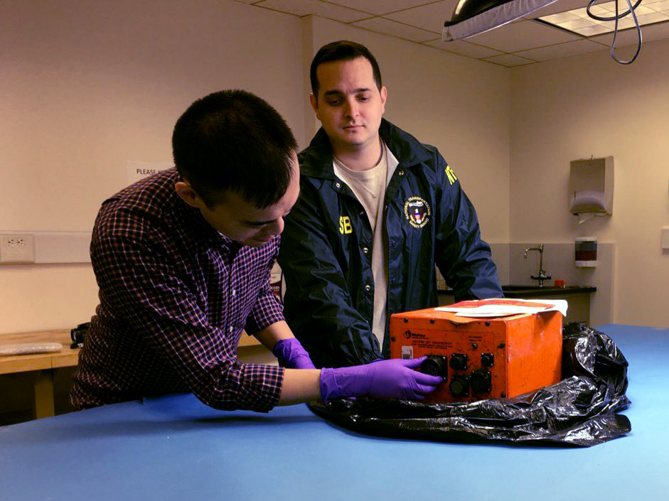 NTSB engineers Ben Hsu and Sean Payne examine recorder from lead locomotive of Amtrak train 501 (which derailed on December 18th) at the NTSB lab in Washington on December 20th, 2017